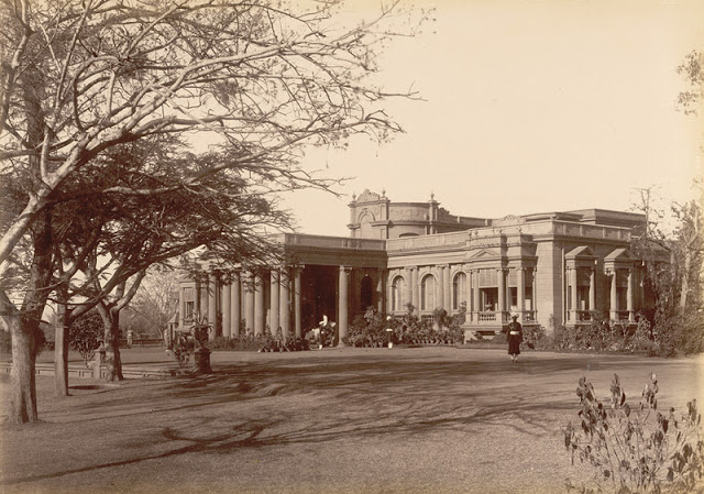 View of the Residency, Bangalore from the Lee-Warner Collection: 'Souvenirs of Kolhapur. Installation of H.H. the Maharajah, 1894'